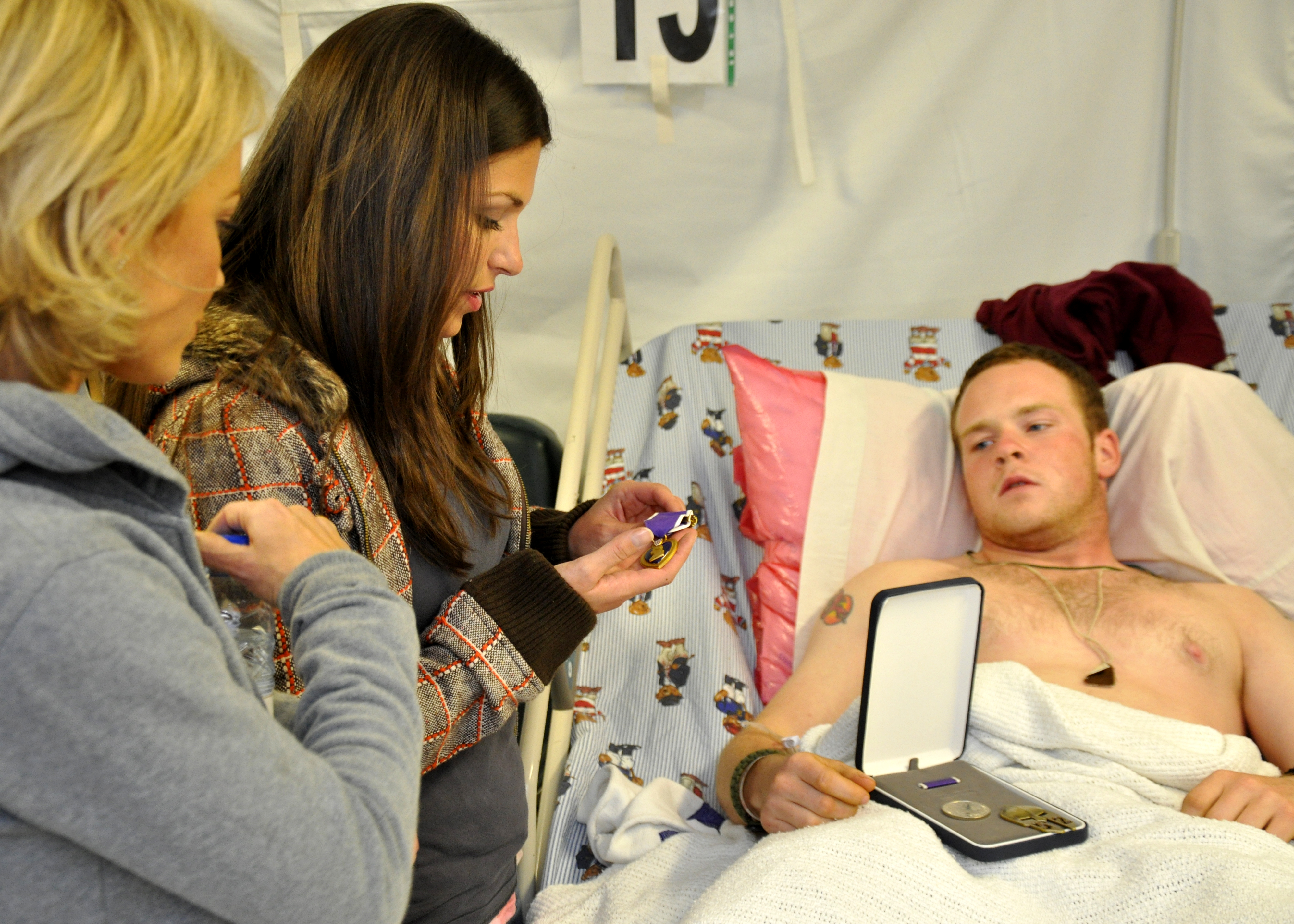 KANDAHAR AIRFIELD, Afghanistan - Celebrities Kelly Carlson and DeAnna Pappas examine a Purple Heart Medal belonging to wounded Soldier Sgt. Scott Mackay; a Stratford, Conn. fire team leader from Bravo Company, 5th Brigade, 2nd Infantry Division; Oct. 13 at the Role III coalition hospital here. Carlson and Pappas, along with Greg Germann, D.W. Moffett, and Vanessa Branch, visited troops at multiple locations across Afghanistan for more than a week as part of a United Service Organizations Ambassadors of Hollywood tour.""